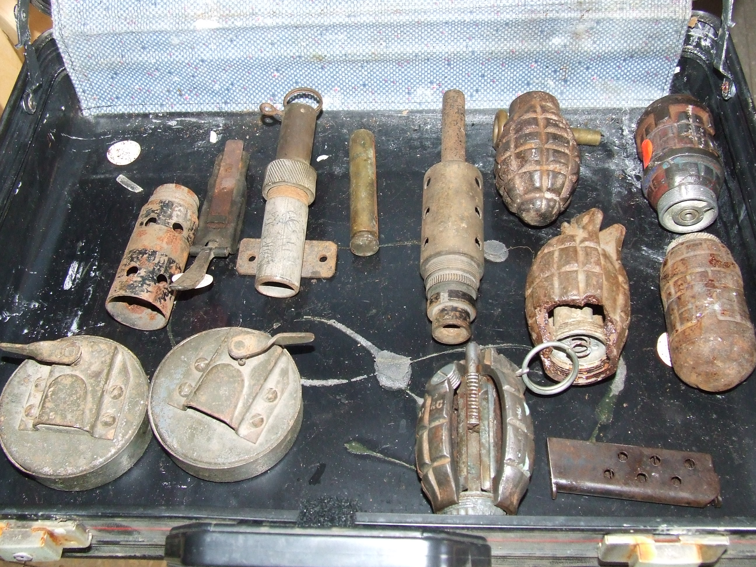 Israel Forces